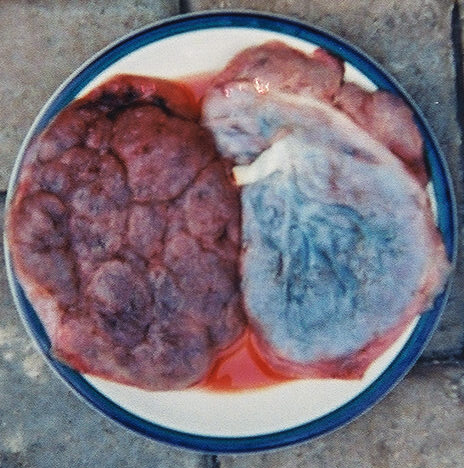 A pair of placentas. The left one is uterus side up, and the right one is baby side up. Recipes here